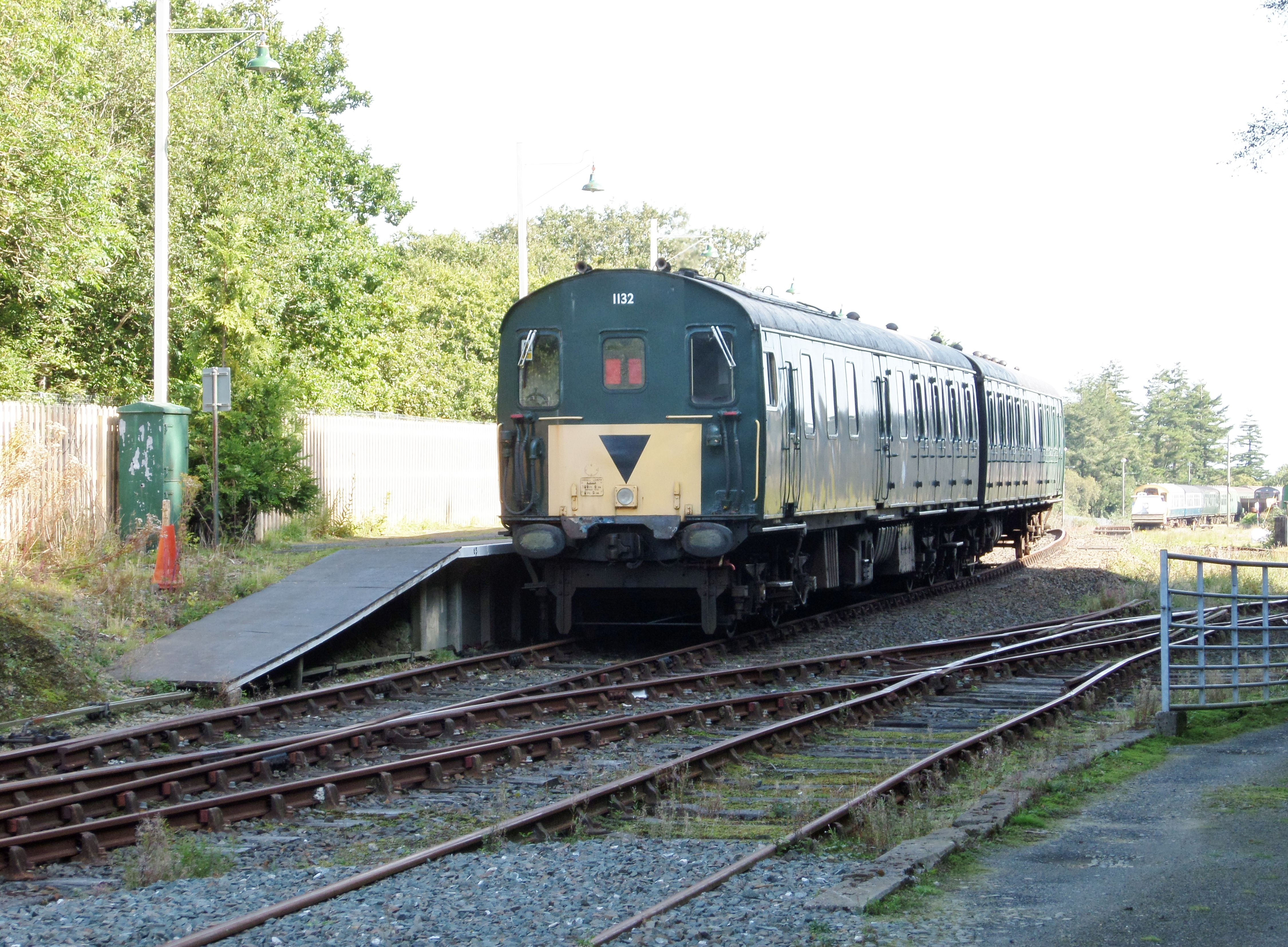 Meldon Viaduct Station and 'Thumper' train, Dartmoor Railway, Okehampton, Devon